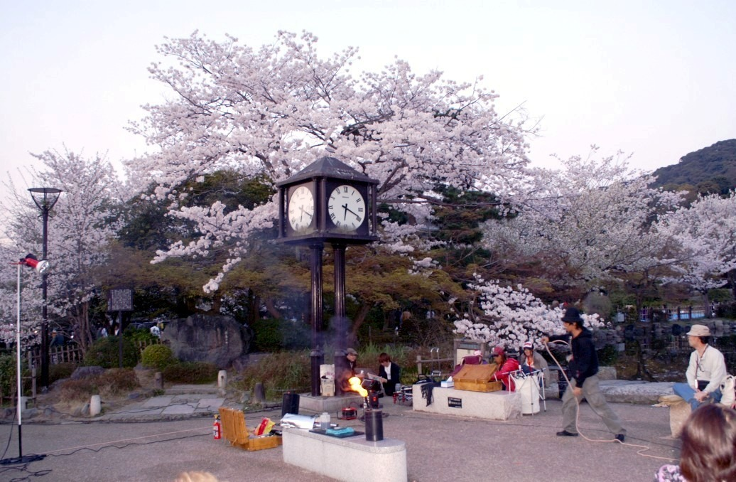 Maruyama Park People in the Magician's show